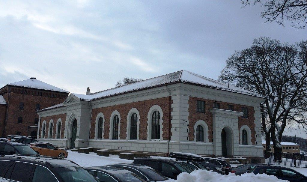 Gym of Akershus Castle, Oslo